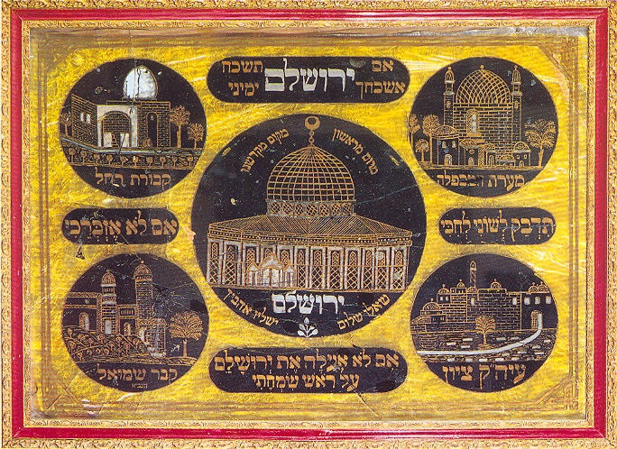 Oil-colored glass panel and paste of gold paper, by Moshe Mizrahi, early 20th century. In the center is the Temple, in the shape of the Dome of the Rock, around which are holy sites of Jerusalem and its surroundings. Moshe Mizrahi owned a glassware and frames store in the Old City perfume market (Gross Family Collection, Ramat Aviv).